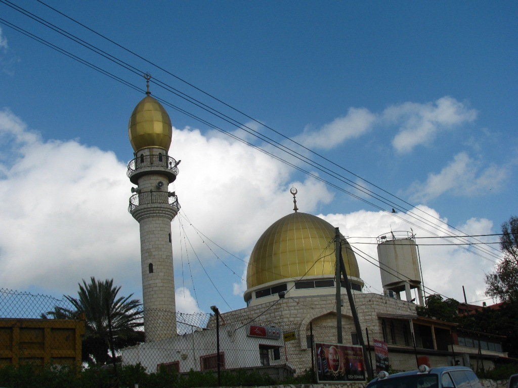 Mosque close